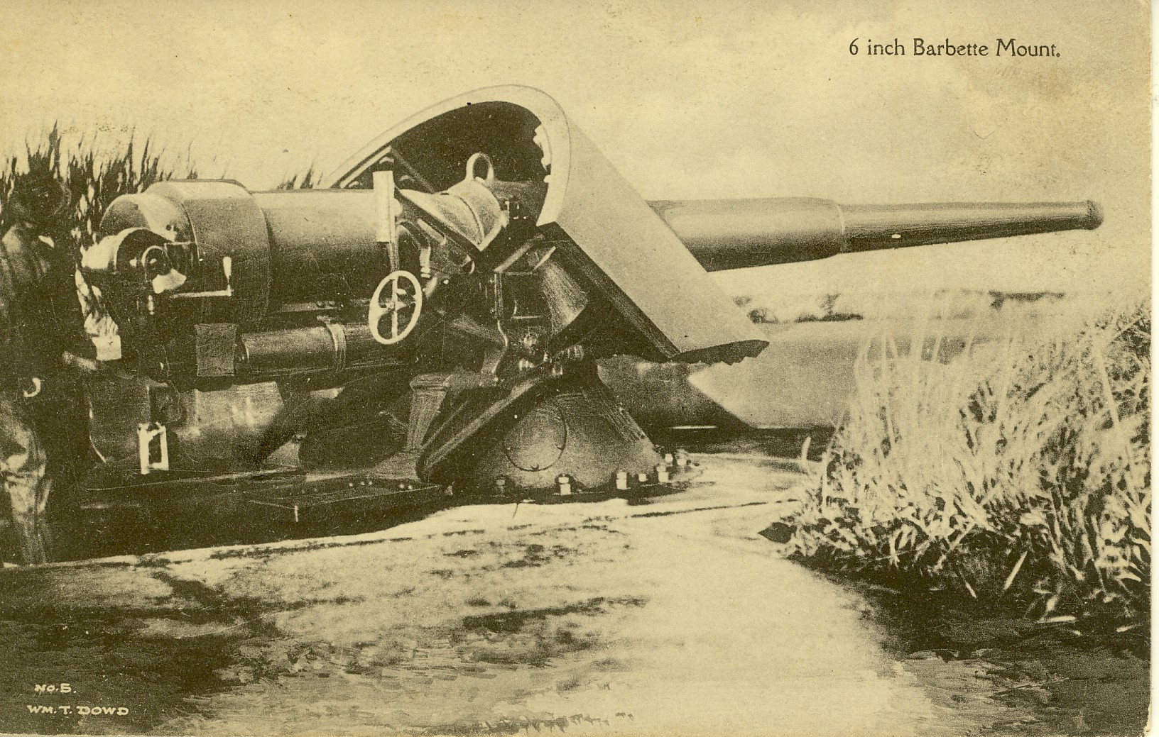 Local Accession Number: PC 178 Description: Postcard photograph of the "6 in. Barbette Mount" at Fort Greble during World War I. Fort Greble did not have this type of gun, but the nearby Fort Getty did. Photographer: Unknown Source: Donated by Jean Brannum Nichols Size: 3x5 Medium: Print, Black and White Date: c. 1917- 1918